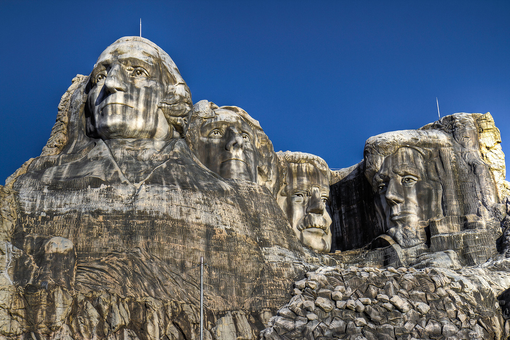 A copy of the Mount Rushmore in Japan. Actually located in an abandoned theme park called "Western Village".